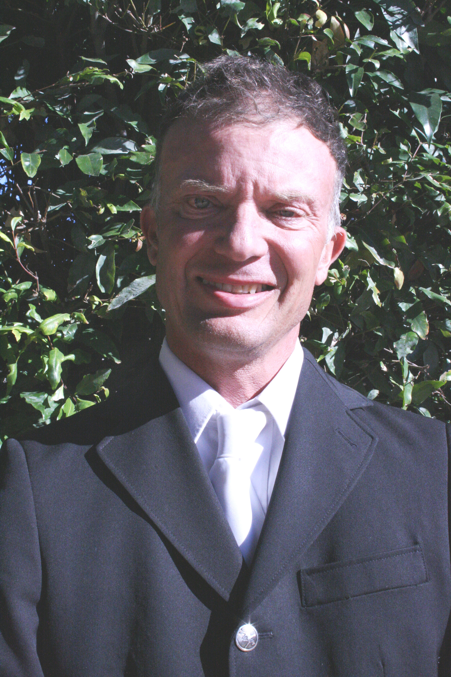 Portrait of Australian equestrian Rob Oakley, 2012 Australian Paralympic (shadow) Team athlete